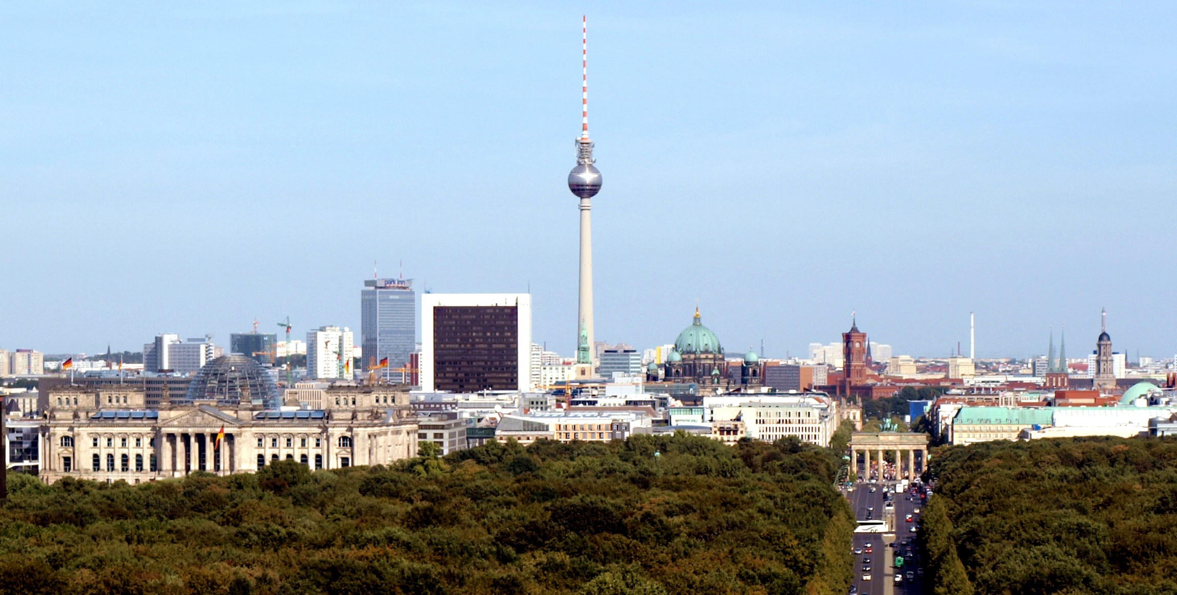 Berlin Cityscape, shot from Siegessäule (warmed version)